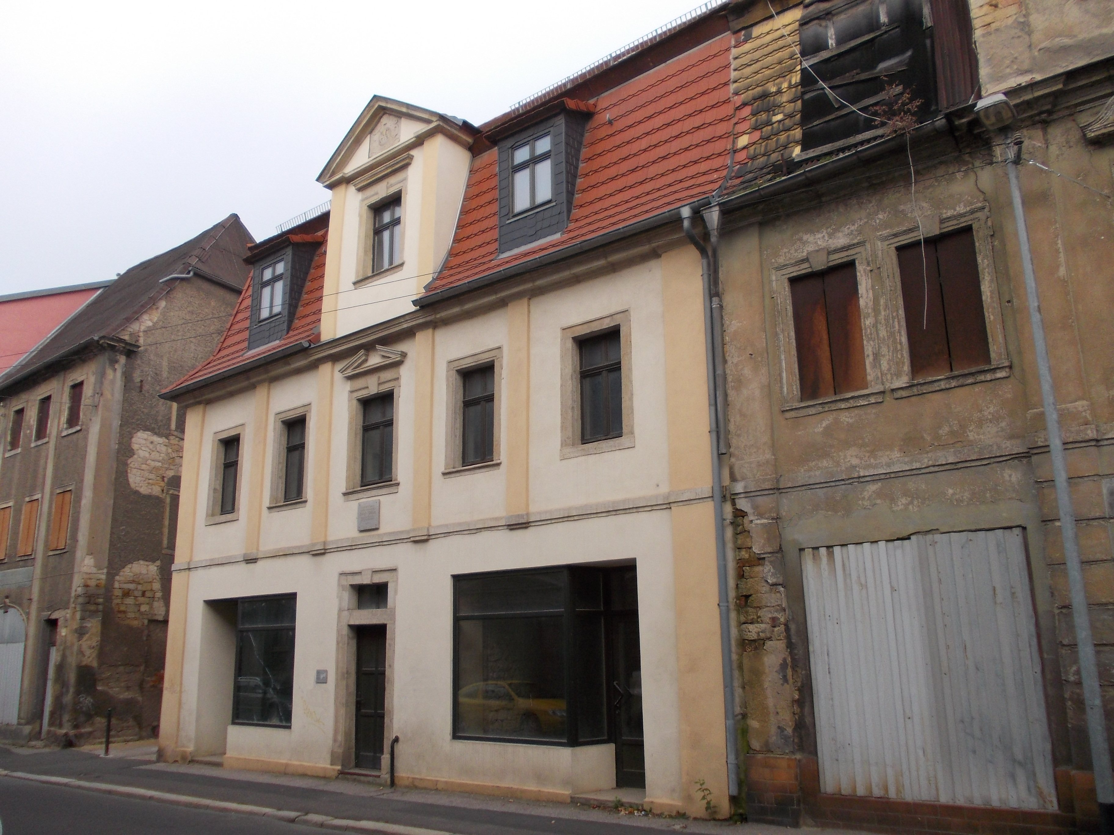 No. 13, Klosterstrasse in Weissenfels (district: Burgenlandkreis, Saxony-Anhalt), the house where the poet Adolf Müllner lived.